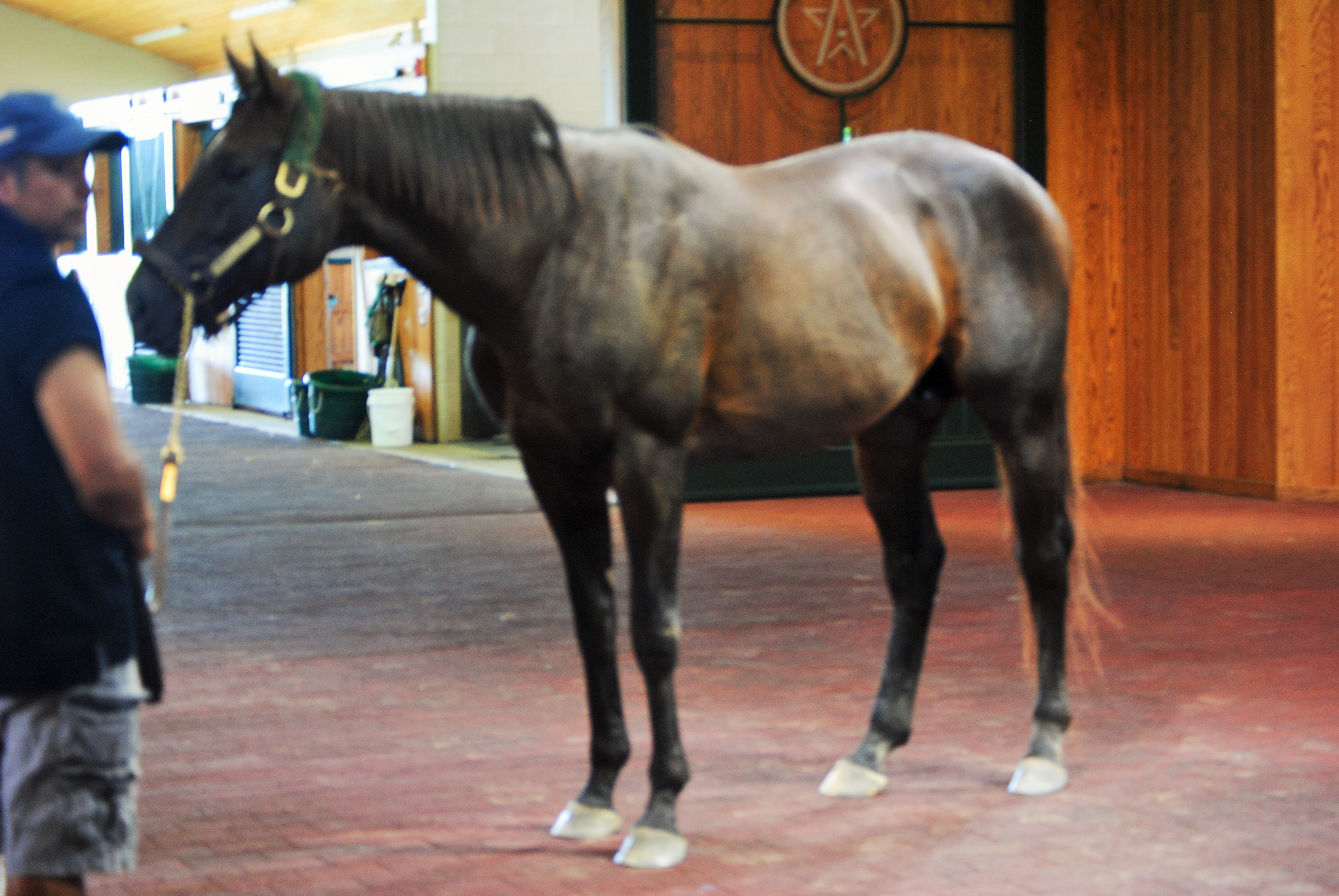 Pioneerof the Nile, sire of American Pharoah, just in from a roll in the fields. July 2015, Winstar Farms